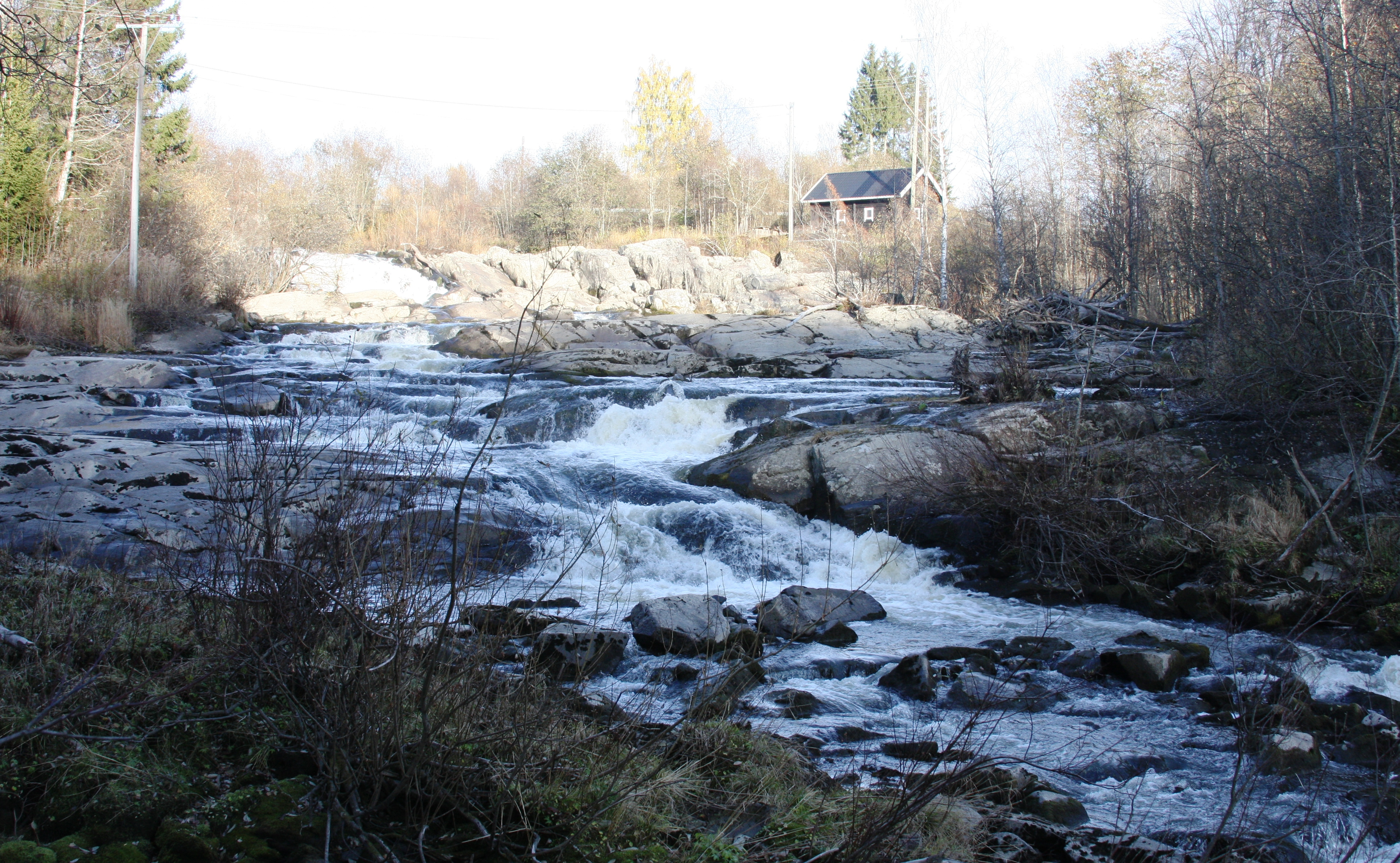 Image of the Leira river by Kråkfoss, in the municipality of Ullensaker - Akershus, Norway